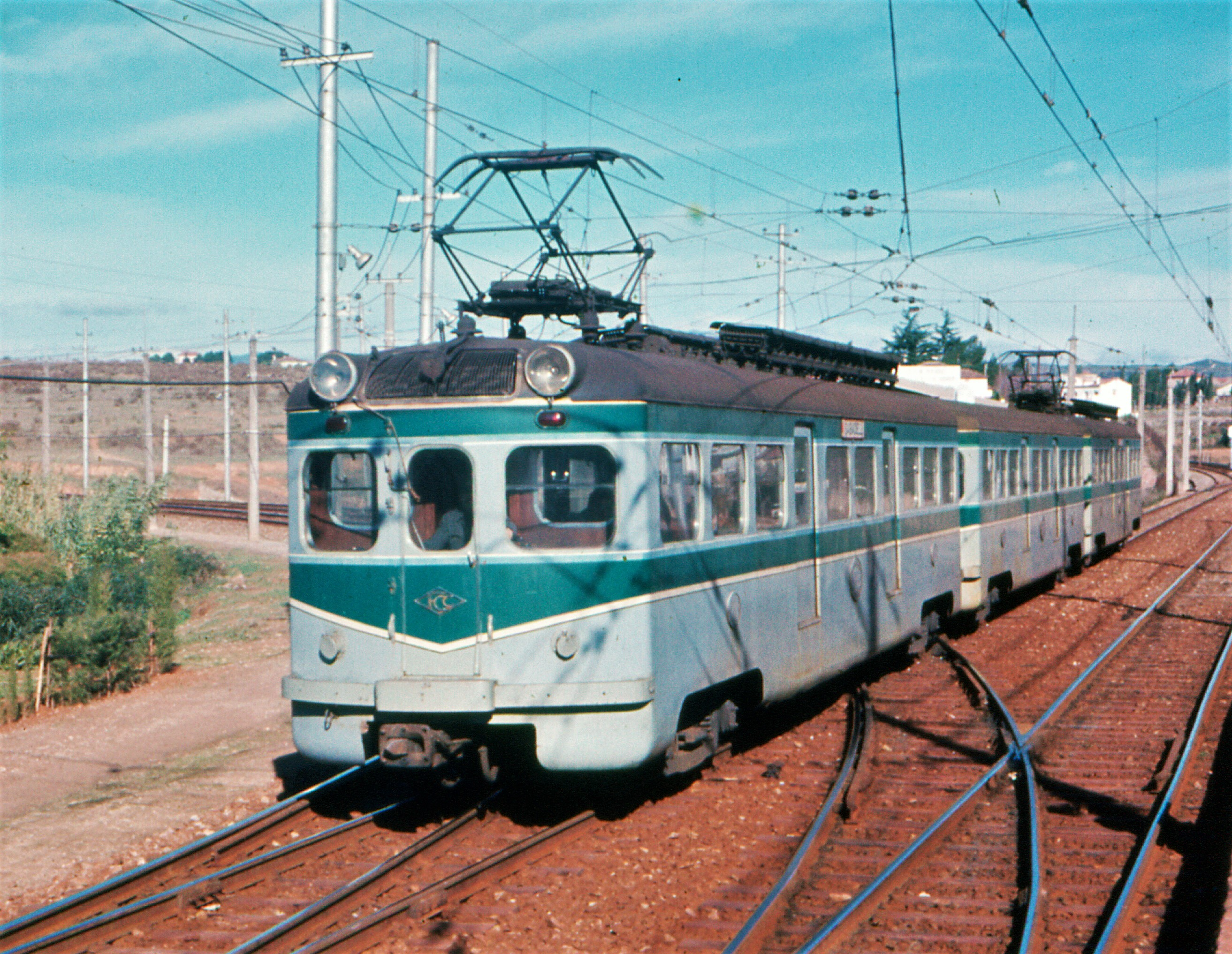 A train of the 400 series of Ferrocarriles de Cataluña S.A. entering the station of Sant Cugat, coming from Sabadell.